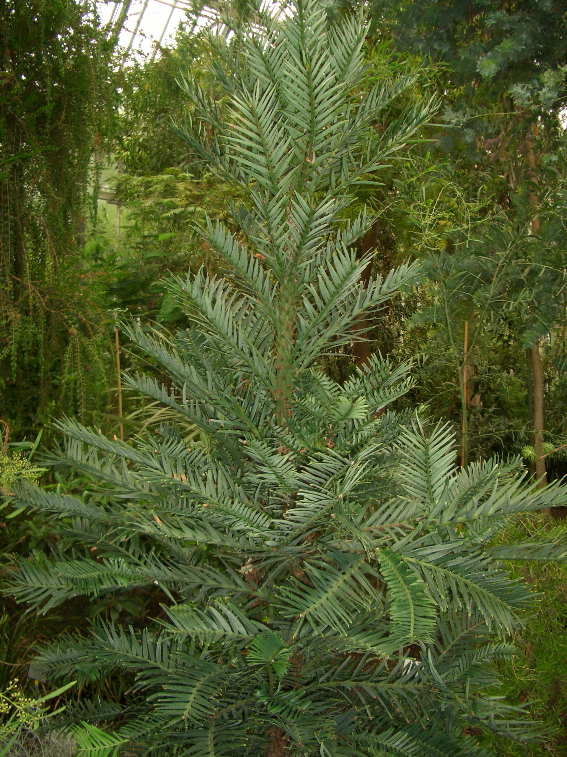 Wollemia nobilis Botanical Garden in Berlin Native nameBotanischer Garten, Berlin-DahlemLocationBerlinCoordinates52° 27′ 18″ N, 13° 18′ 13″ E Established1899Website